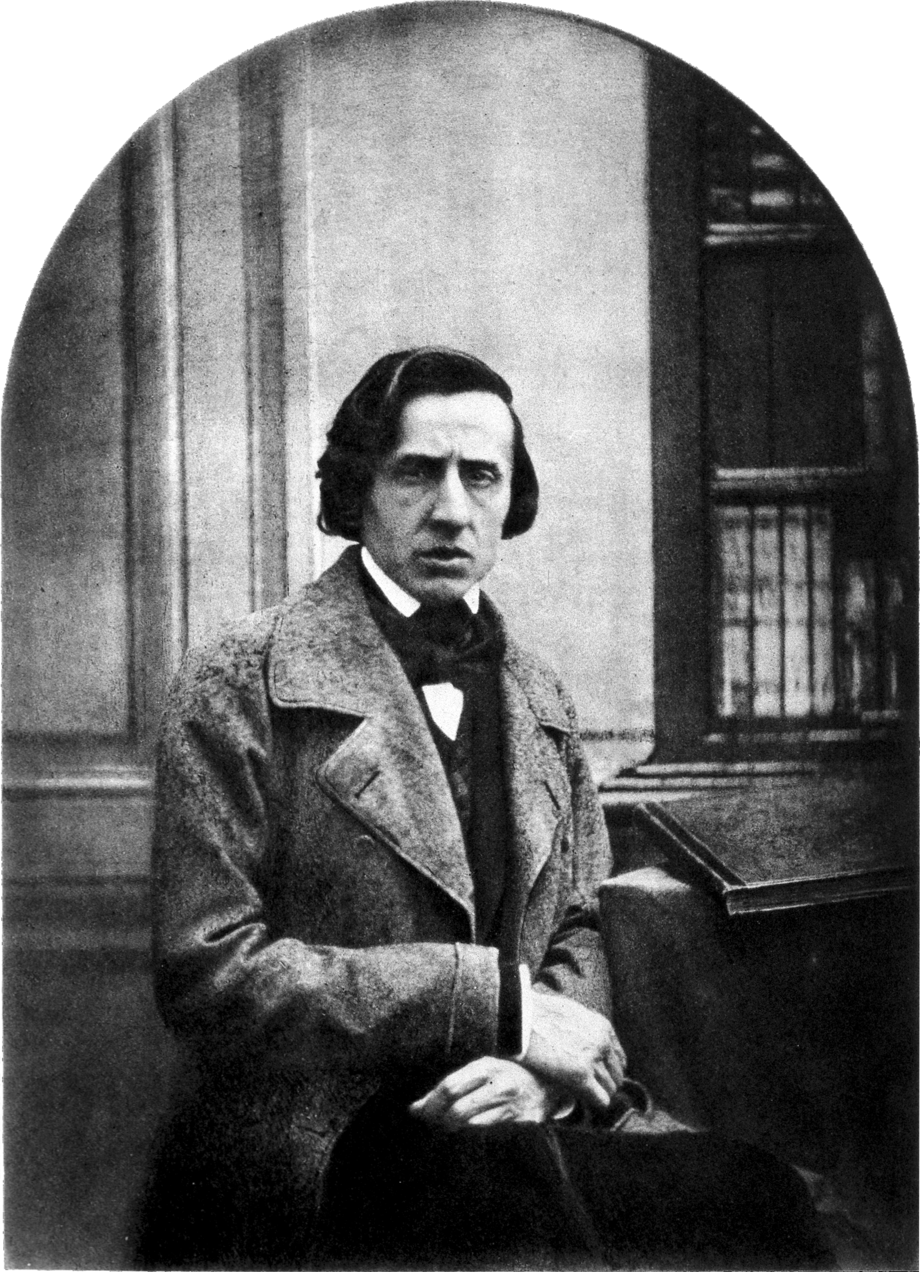 The only known photograph of Frédéric Chopin